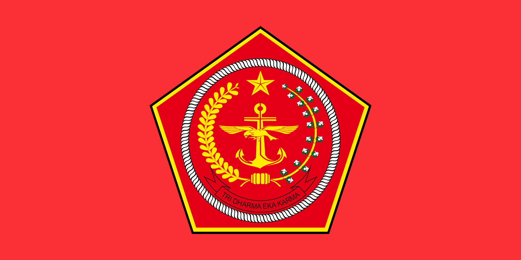 Flag of the Indonesian National Armed Forces